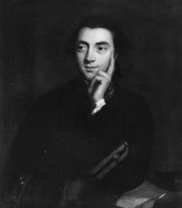 Portrait of Leonard Smelt by Joshua Reynolds, 1755 (private collection; photograph from Photographic Survey, Courtauld Institute of Art, London) by Sir Joshua Reynolds